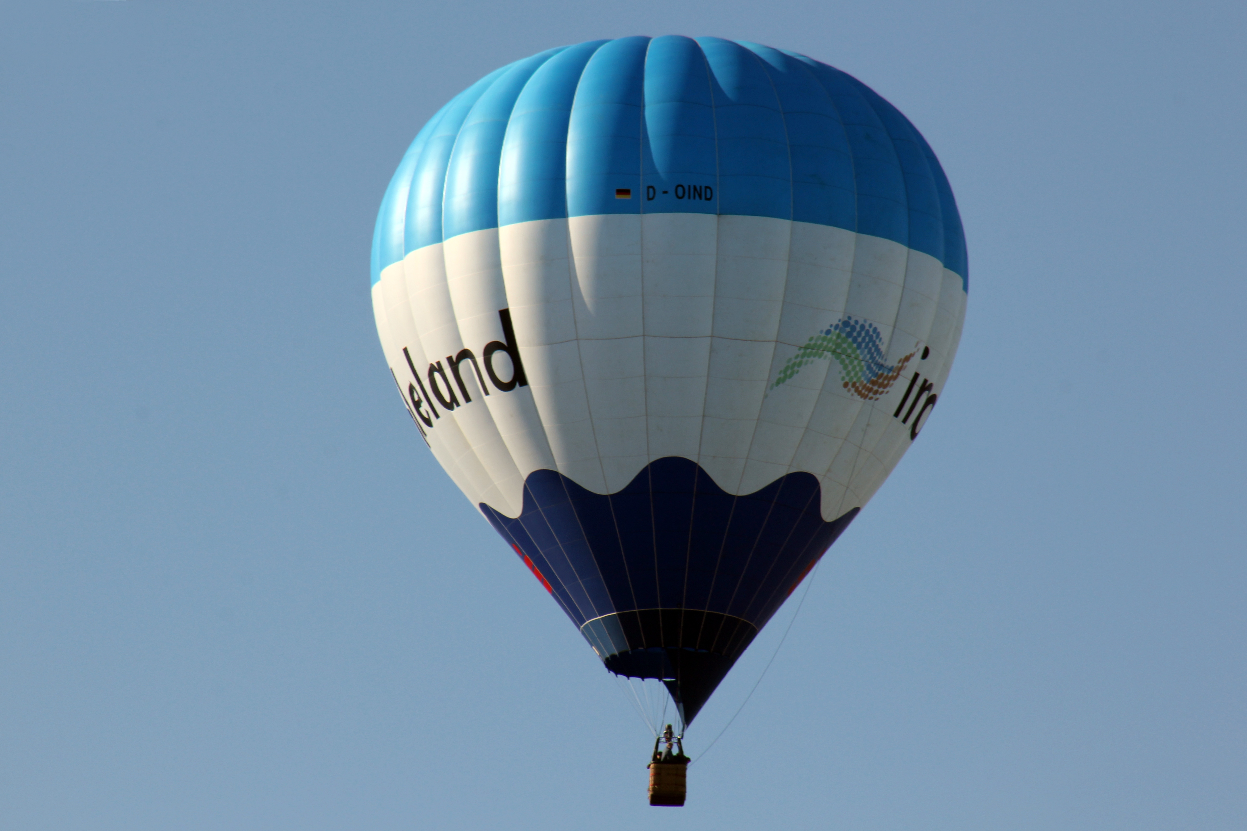 Hot Air Baloon